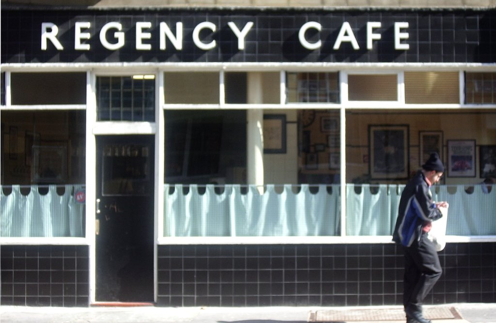 The Regency Cafe, Pimlico, London. A typical Italian-run "greasy spoon" restaurant.